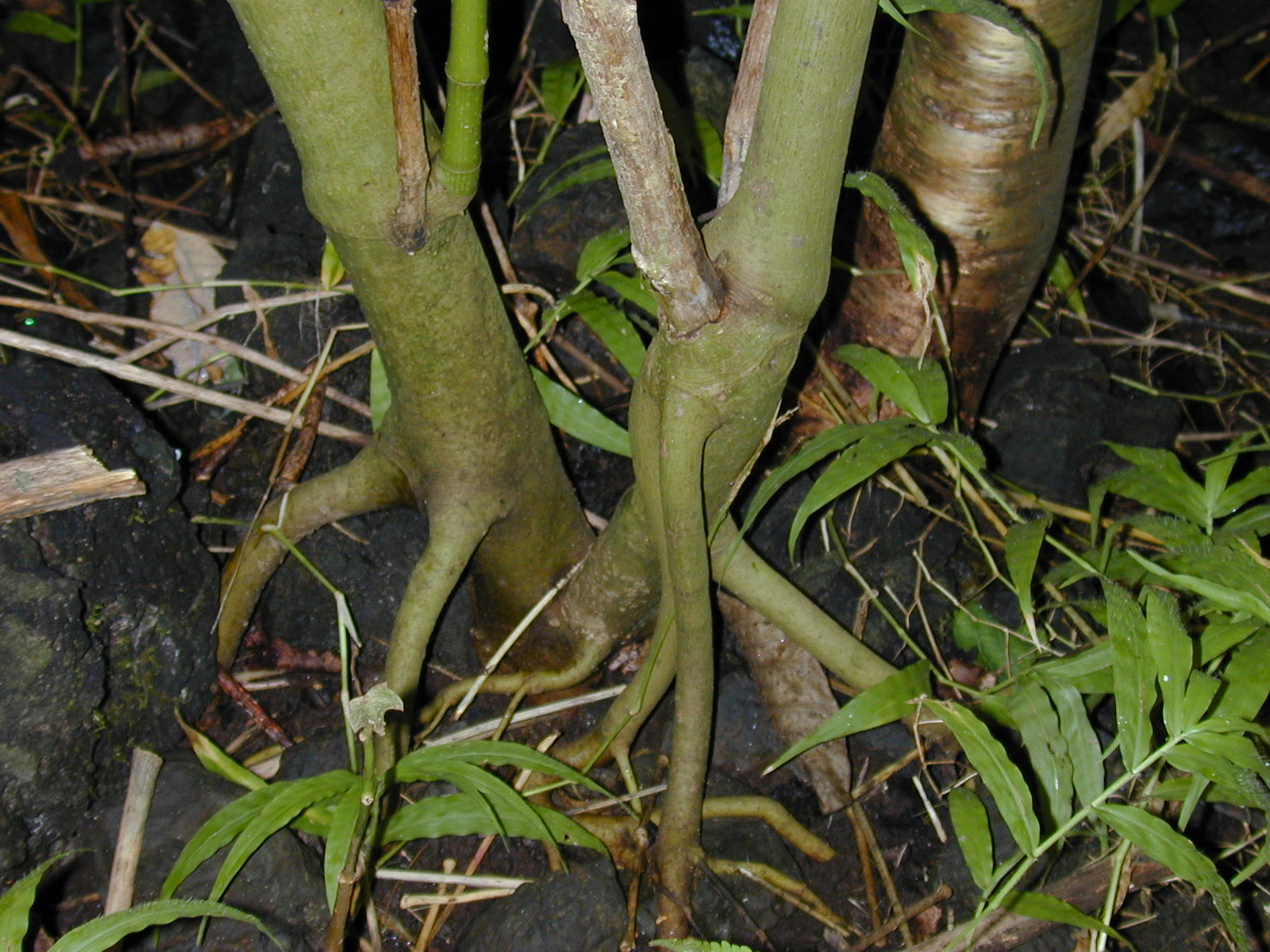 Piper aduncum (prop roots). Location: Maui, Nahiku